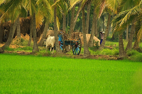 The Scenic greenery of Nagullanka Village by Prasad SVD.